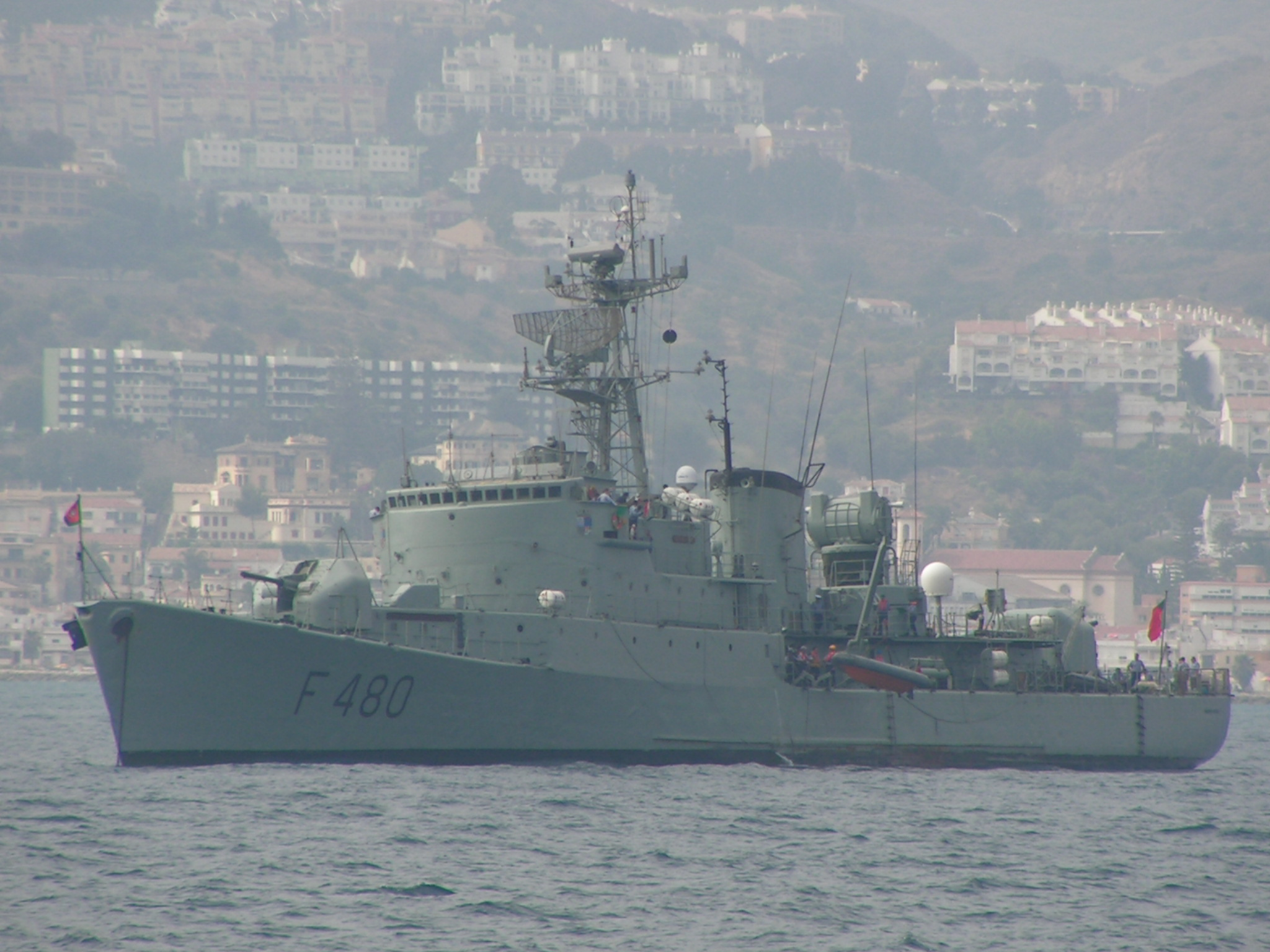 Portuguese frigate João Belo during Neo-Tapon exercise 2005